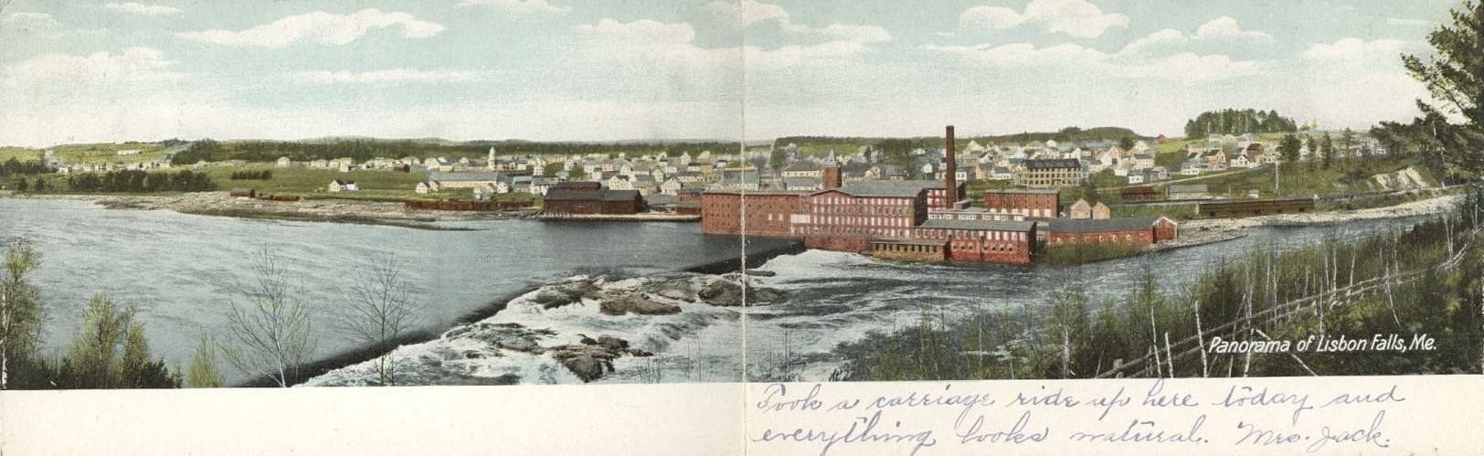 Postcard view of Lisbon Falls, Maine, looking across river at the municipality and a large factory. Store Web page states: "1906 Bifold card Lisbon Falls ME 1906 Penobscot ME Doane Cancel Ty 2 [...] Pub by High Leighton Made in Germany"